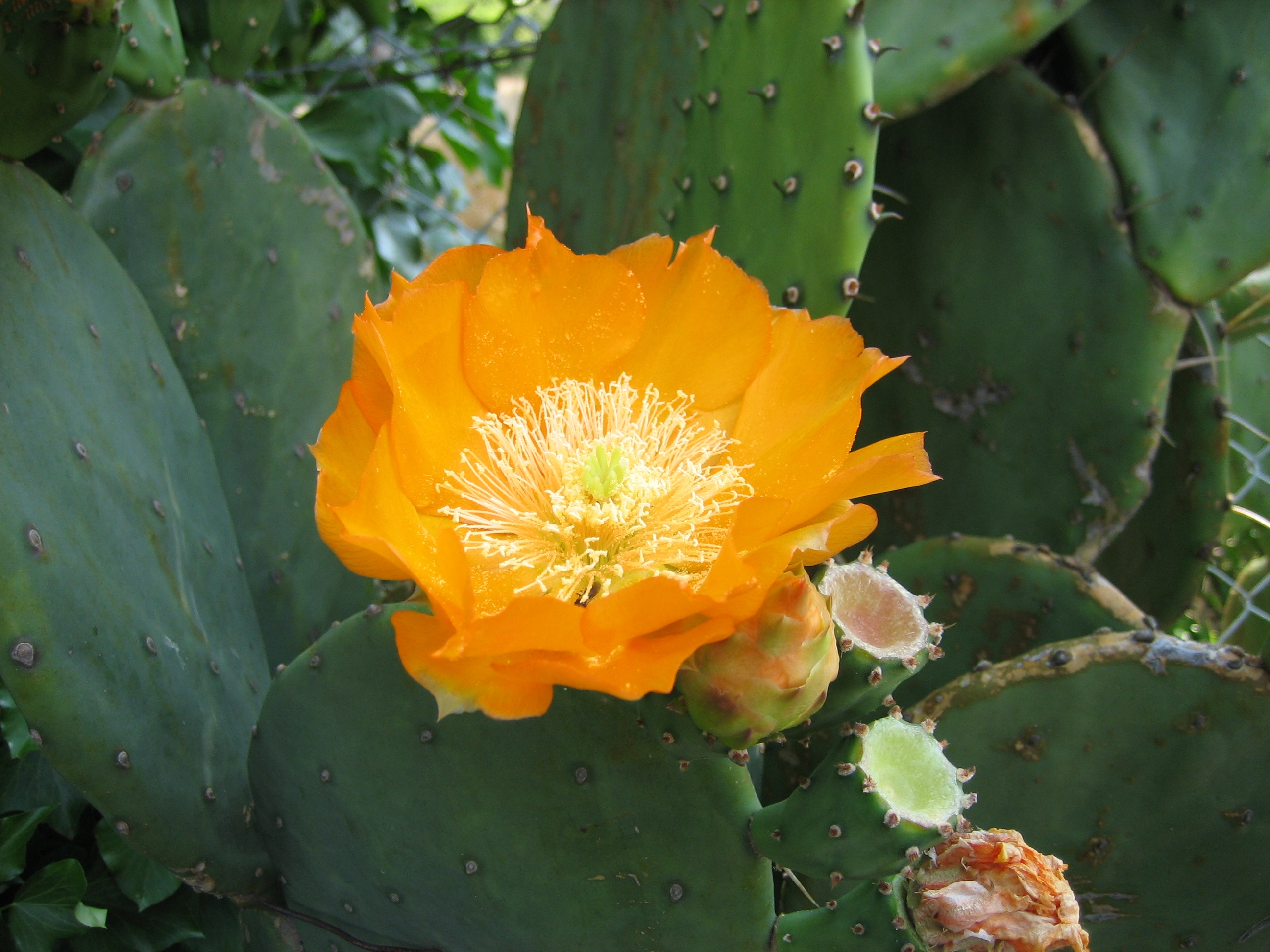 Opuntia ficus-indica blossom near Corinaldo in Marche, Italy.